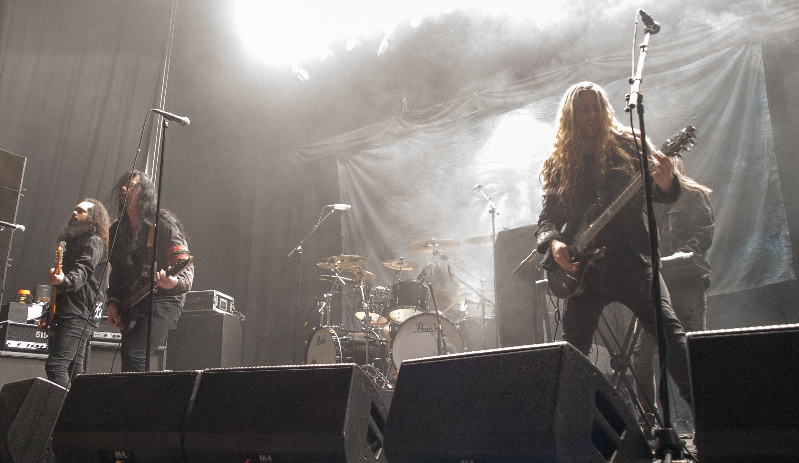 Evergrey live at Finnish Metal Expo 2012 in Helsinki